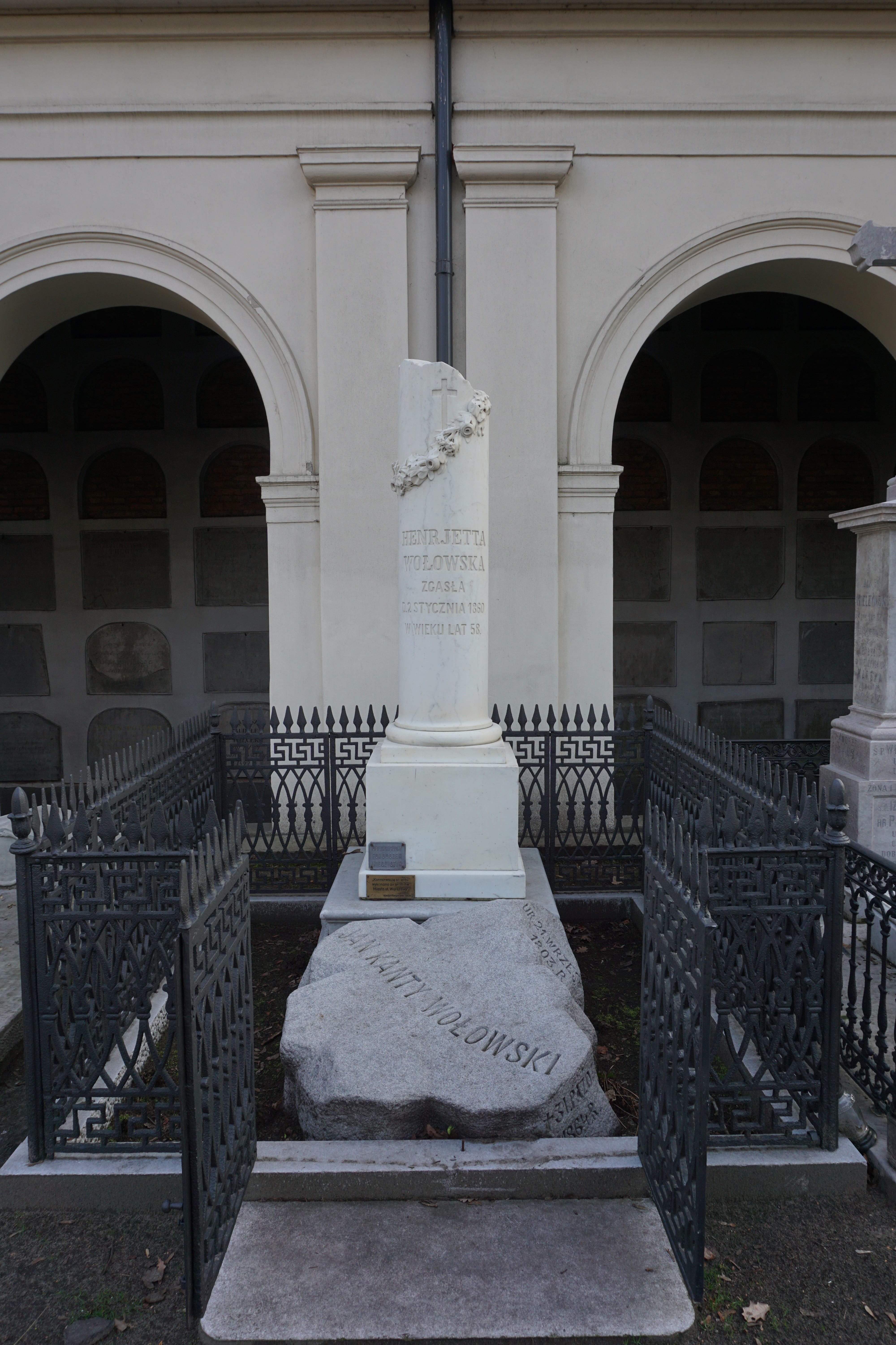 The grave of Jan Kanty Wołowski at the Powązki Cemetery (section Under the catacombs, grave 61, 62)